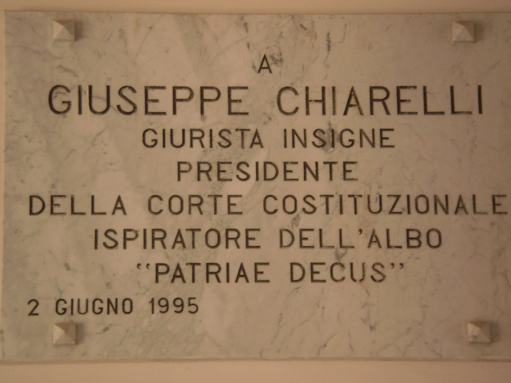 Martina Franca (Italy): Memorial stone of Giuseppe Chiarelli.